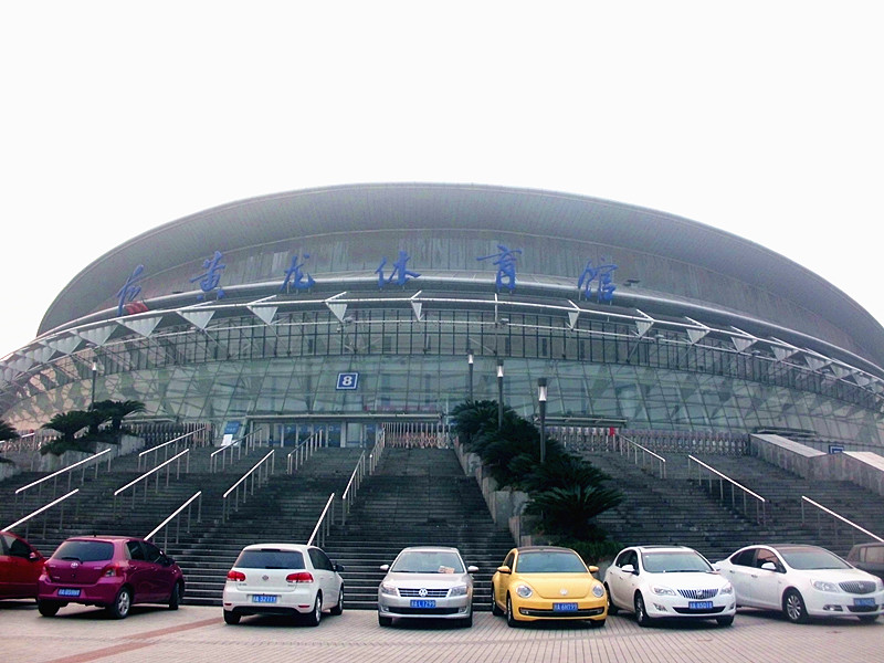 Yellow Dragon Stadium